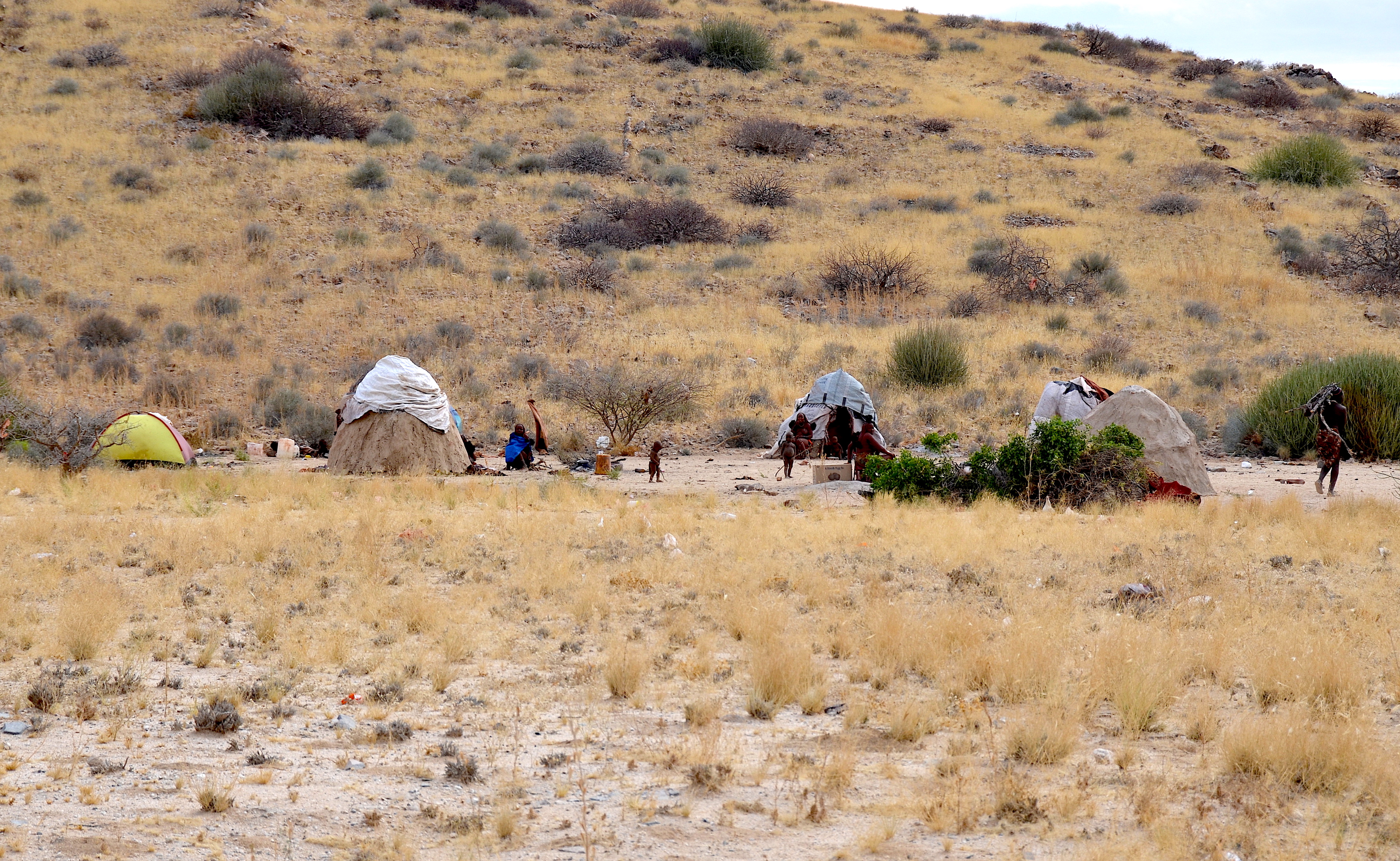 Himba village near Uis in Namibia (2014)